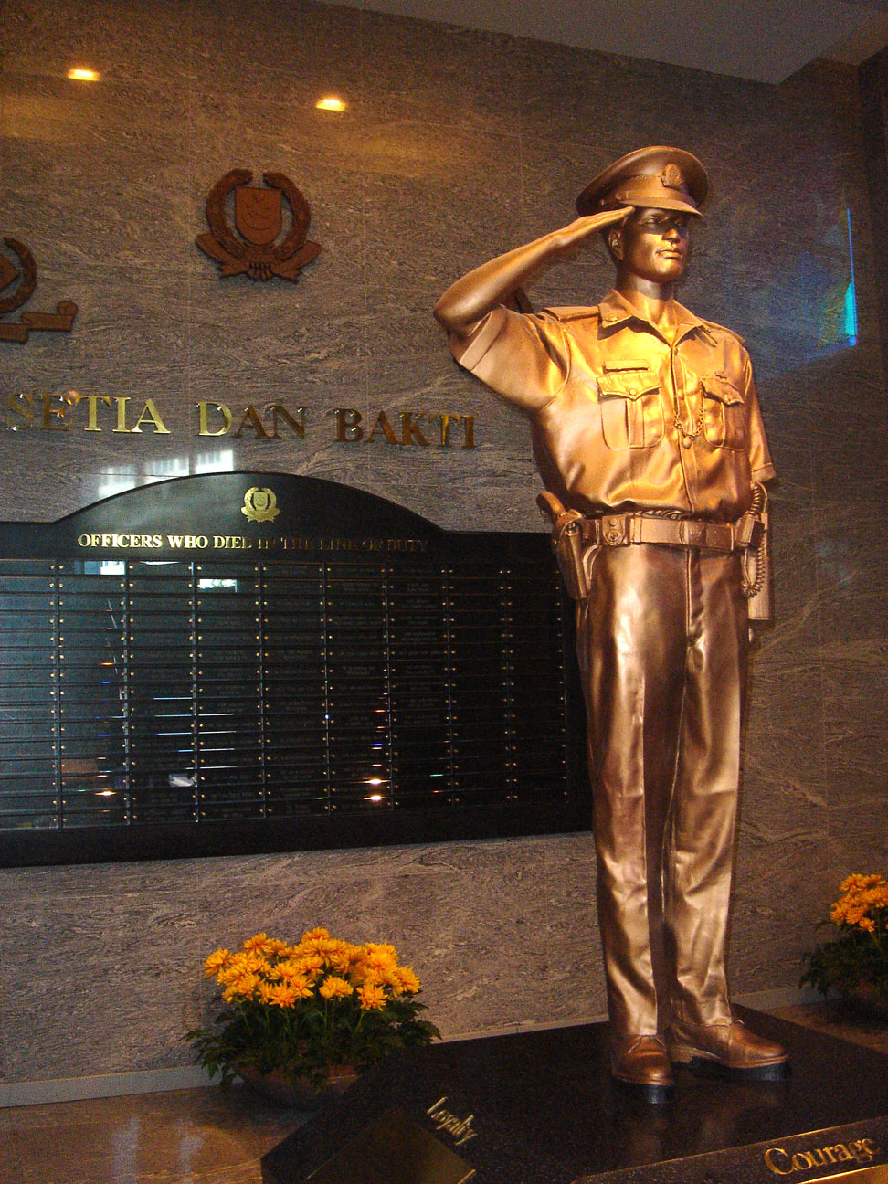 Description: Statue of Singapore police officer before a wall mounted with the names of officers killed in the line of duty since 1900. Source: Self-made Location: Police Heritage Centre, New Phoenix Park Date: 07/11/2005 16:18 Photographer/Painter: Huaiwei